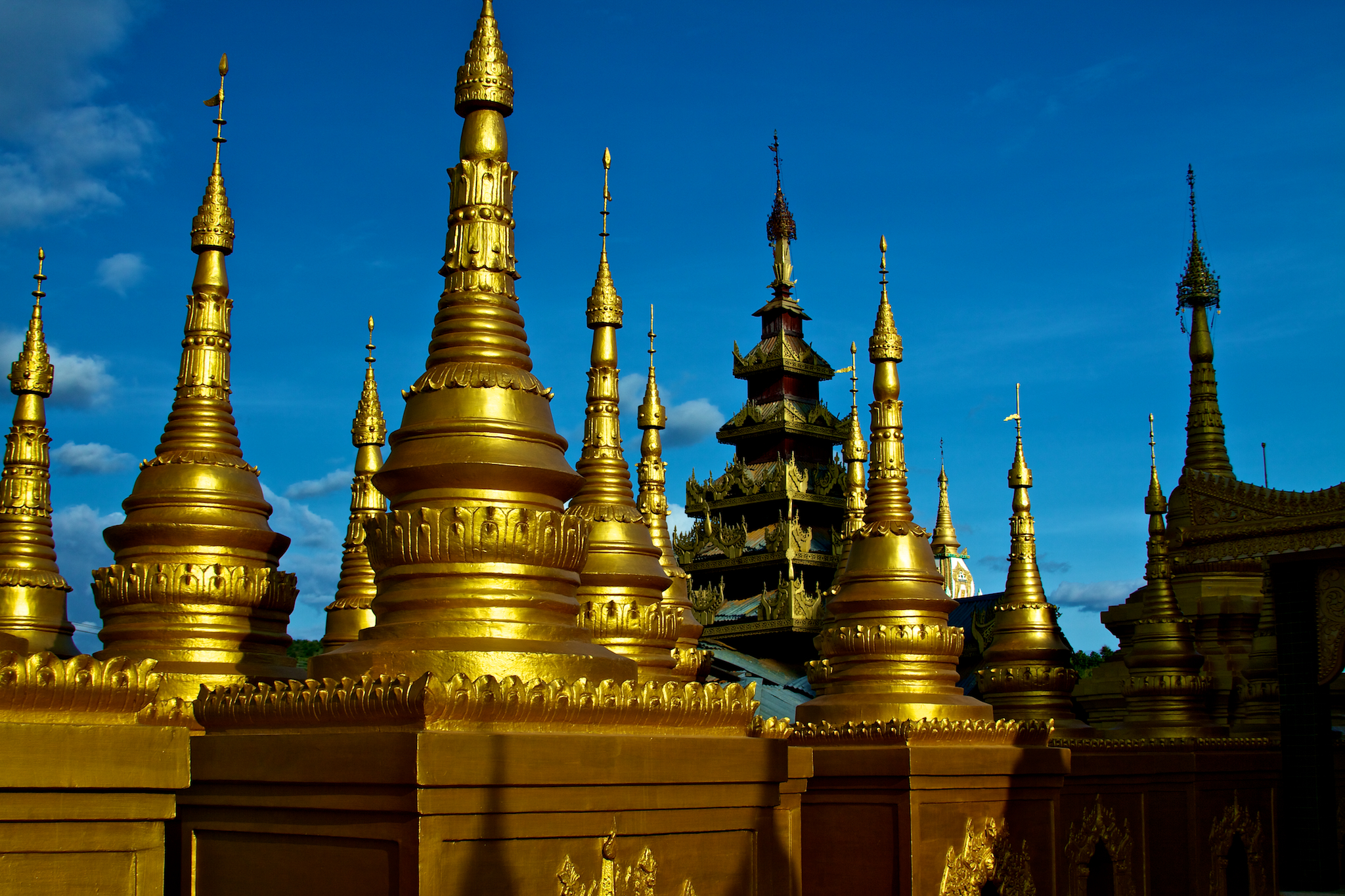 Over 1000 stupas rise like forests around the Bodhi Tataung complex.